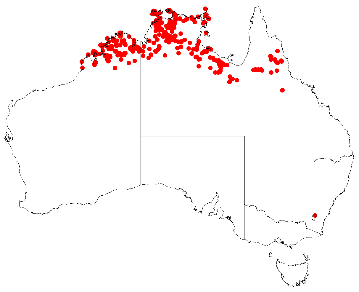 Eucalyptus miniata occurrence records from Australasian Virtual Herbarium}AVH 11 June 2018